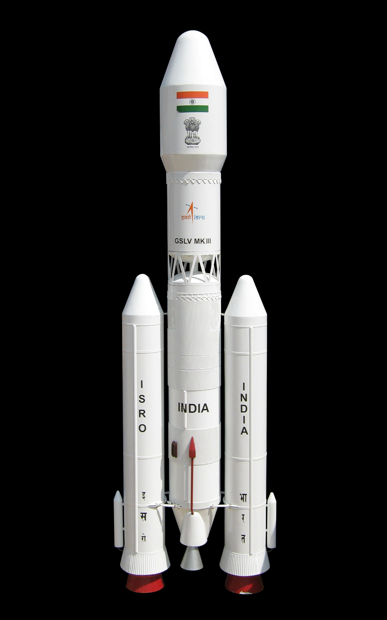 Geosynchronous Satellite Launch Vehicle Mk III